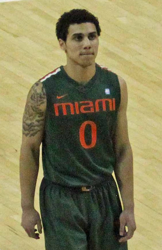 Miami vs Maryland Basketball, Comcast Center, College Park, Maryland